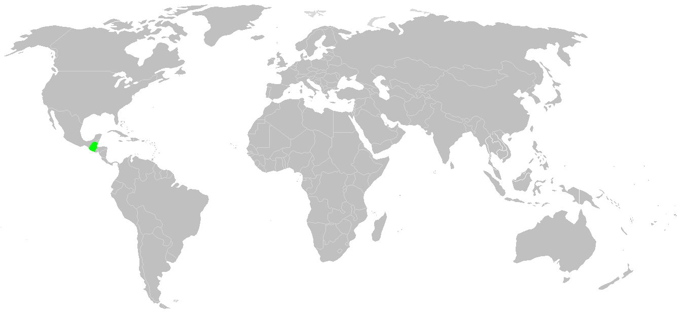 Known world distribution of Pseudocorythalia subinermis (Guatemala).